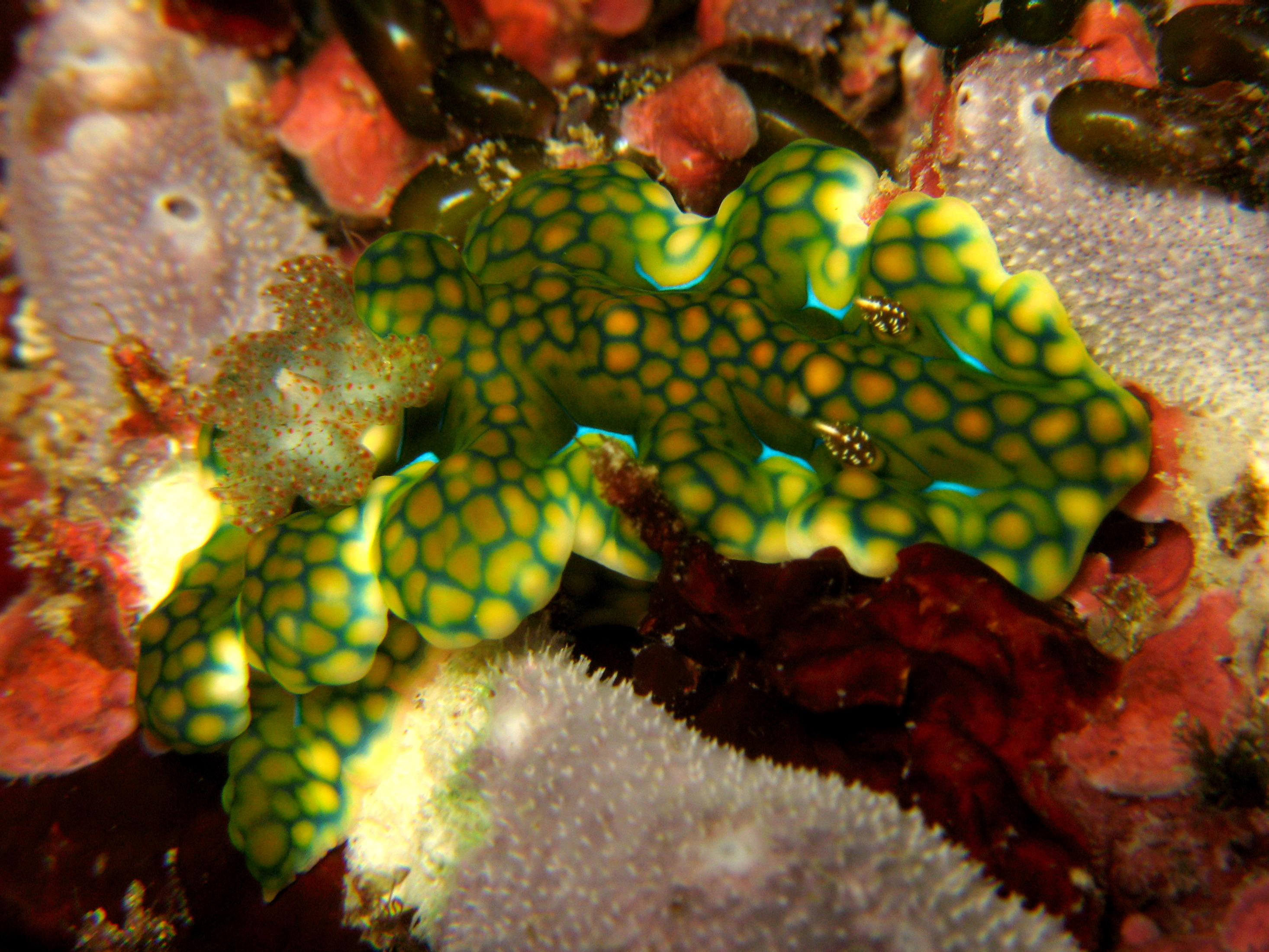 Ther nudibranch Miamira sinuata (van Hasselt, 1824) (synonym: Ceratosoma sinuatum), 15 feet, Guam